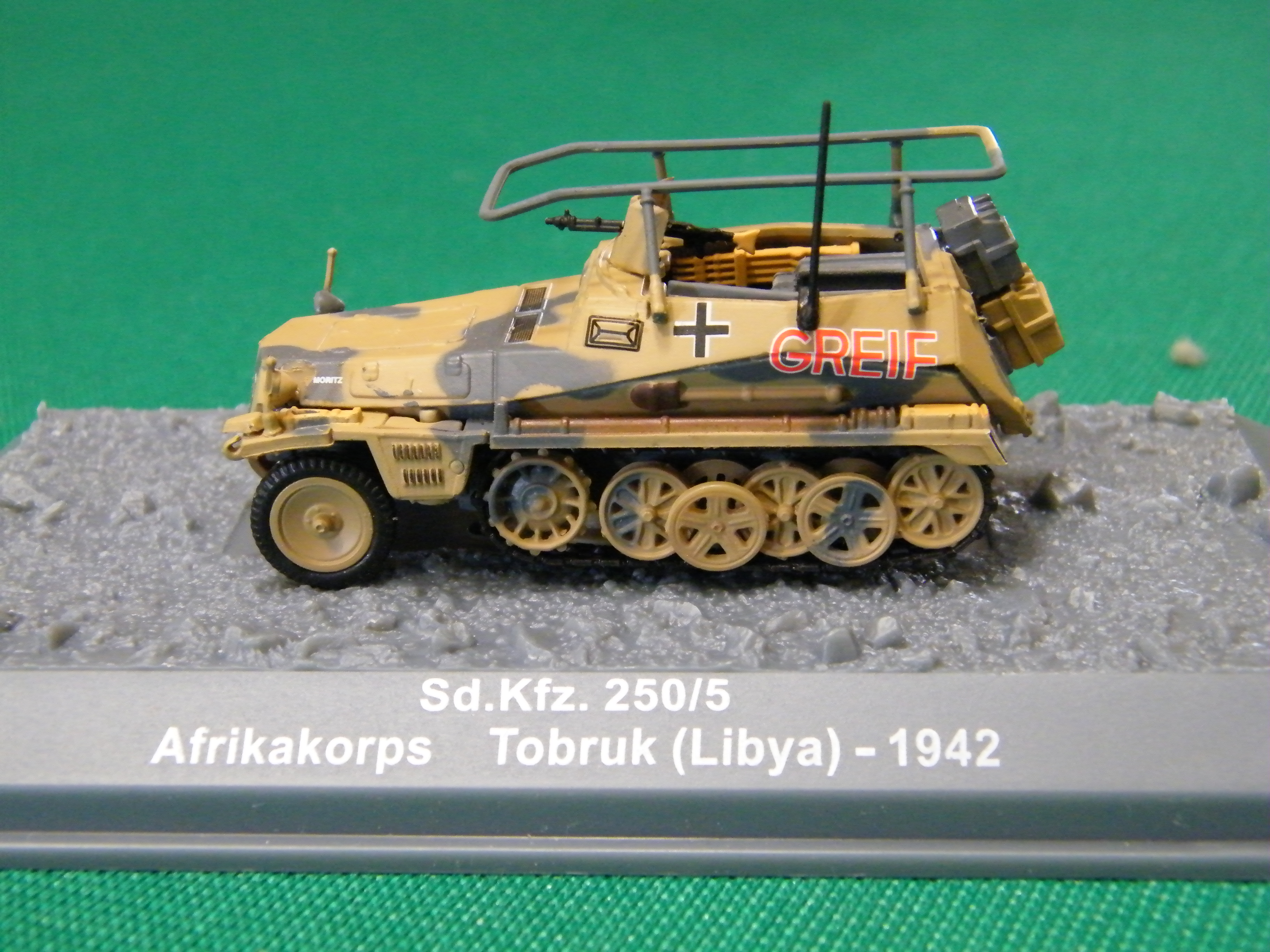 Reproduction of a Sd.Kfz. 250/5 "Greif" (personal Rommel's armoured halftrack)